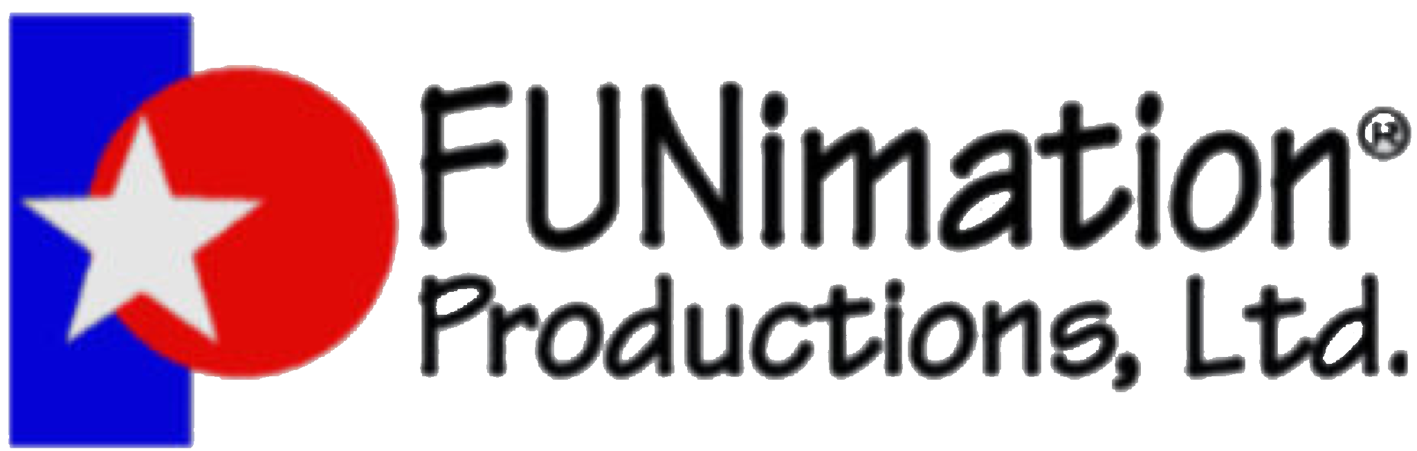 The Funimation logo used from 1995 to 2005